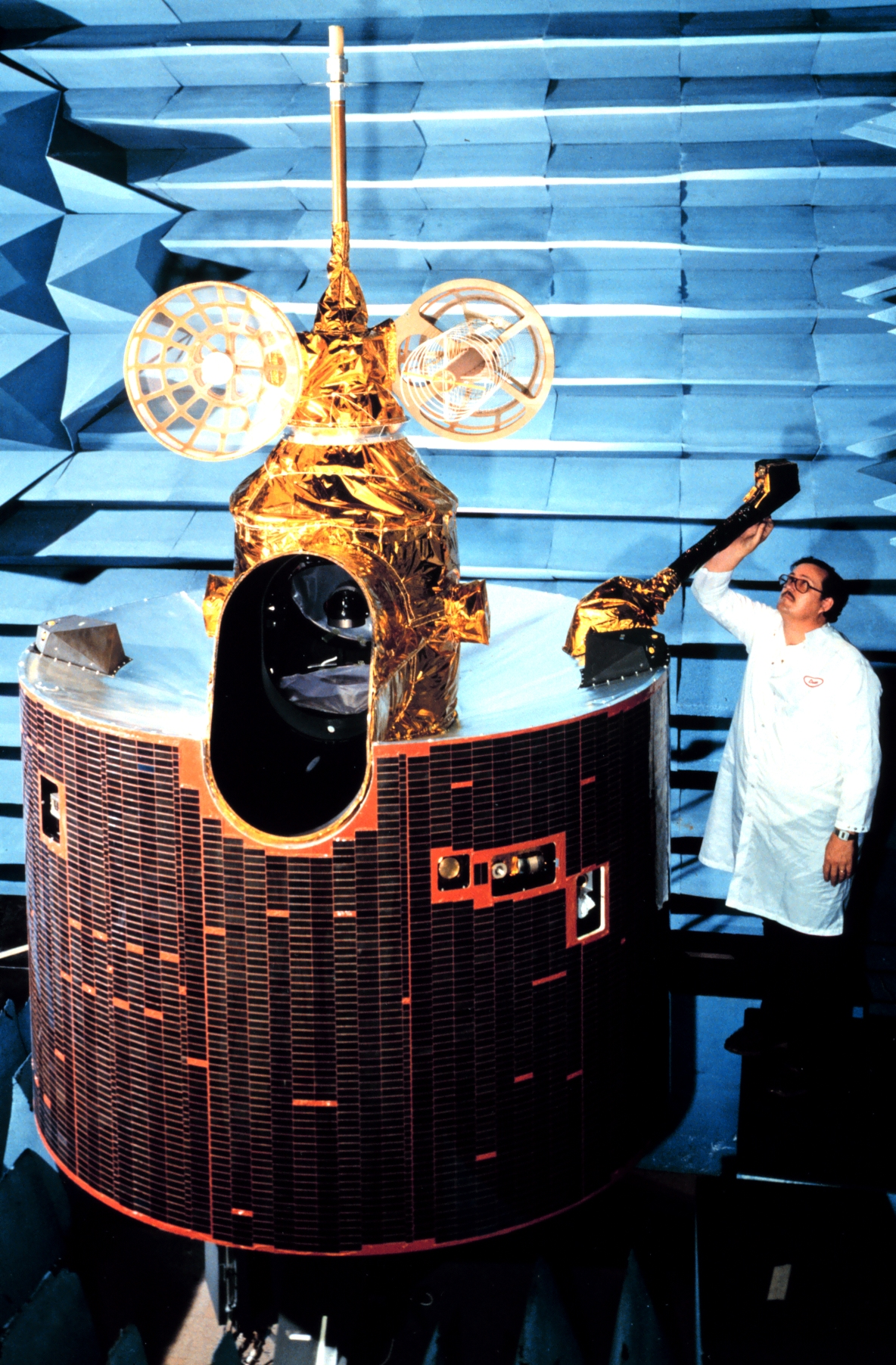 Scientist working on GOES-D model satellite prior to launching.